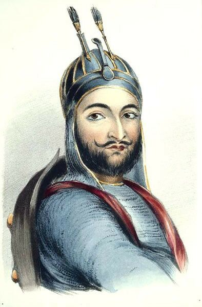 Muhammad Akbar Khan (1813-1845) was the son of Emir Dost Mohammad who was overthrown by the British in 1839 and replaced by Shah Shuja. In November 1841 Akbar Khan led the tribal insurrection against Shah Shuja which resulted in the death of the British envoys in Kabul. He also commanded the subsequent pursuit of the retreating British army from Kabul to Gandamak in 1842. He died in suspicious circumstances in 1845, with many suspecting that his father, who feared his ambitions, had poisoned him. (NAM. 1950-11-55-24)